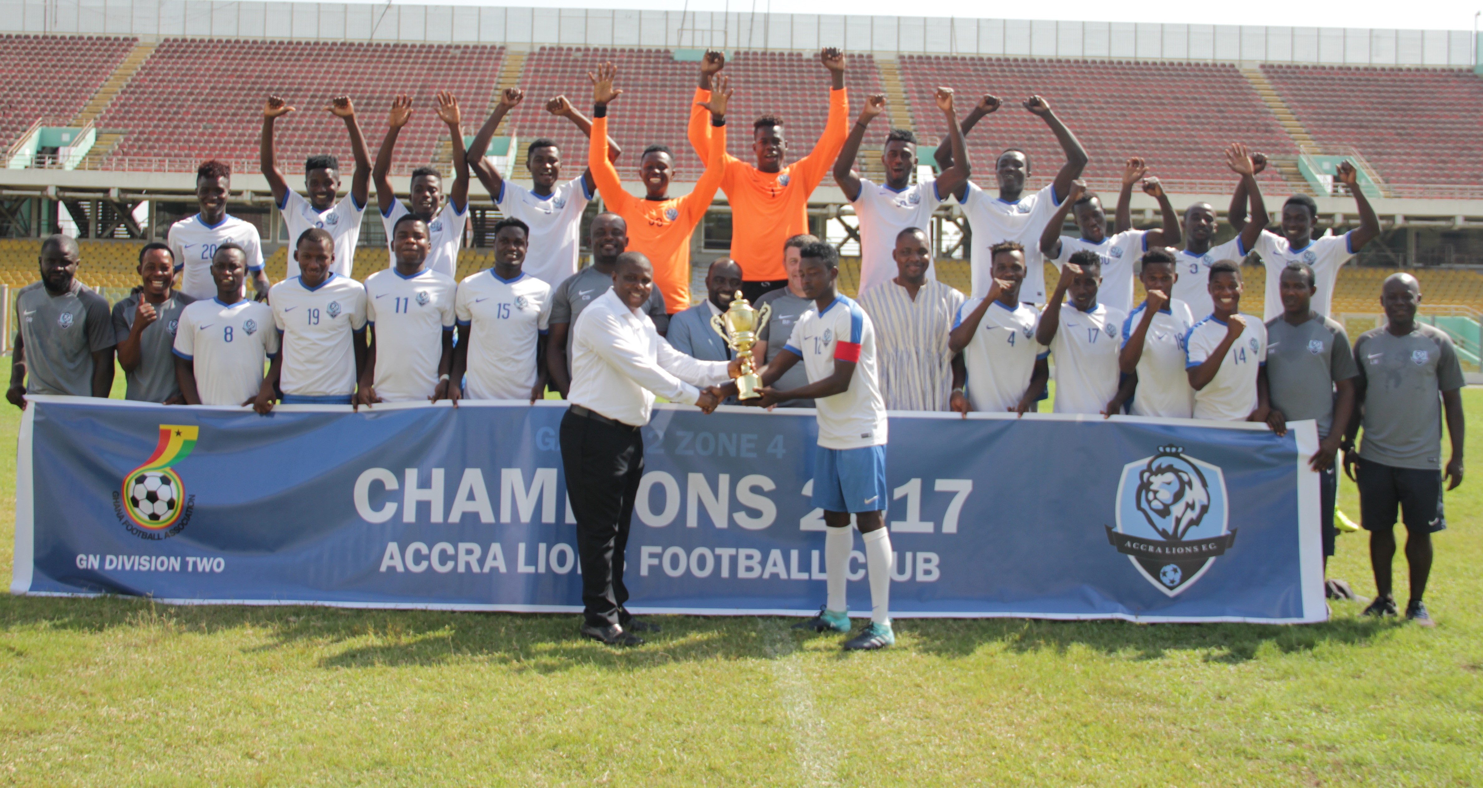 Accra Lions FC wins Greater Accra 2017 Division Two League